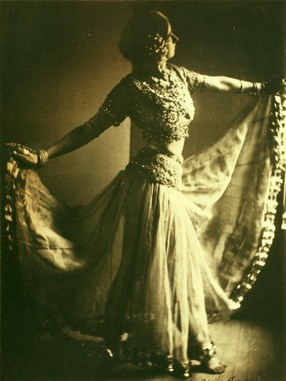 Ruth St. Denis